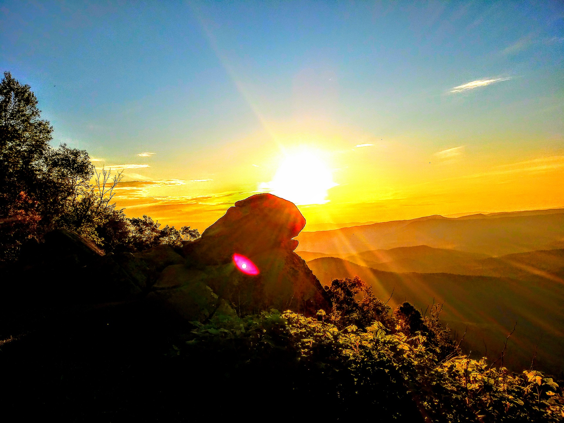 This is the northern Arnold Valley overlook at Thunder Ridge on the Blue Ridge Parkway overlooking Arnolds Valley in Natural Bridge Station.